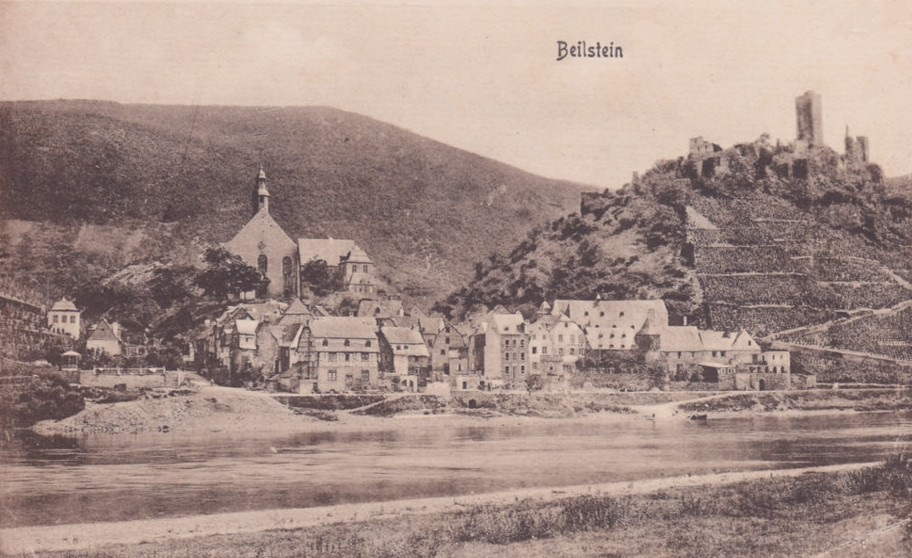 The village of Beilstein on the Moselle river (Rhineland-Palatinate). Postcard from c. 1900.